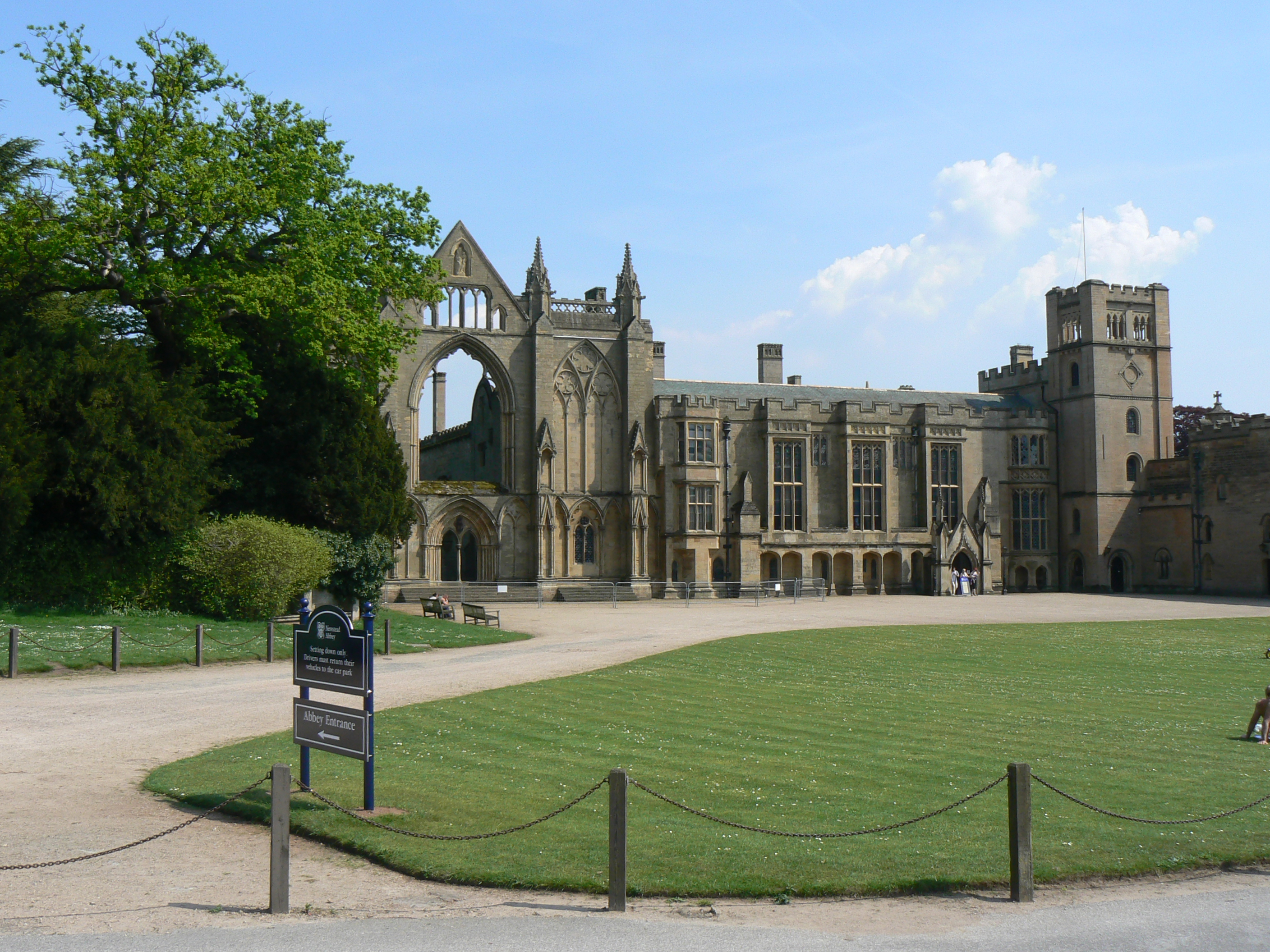 Newstead Abbey